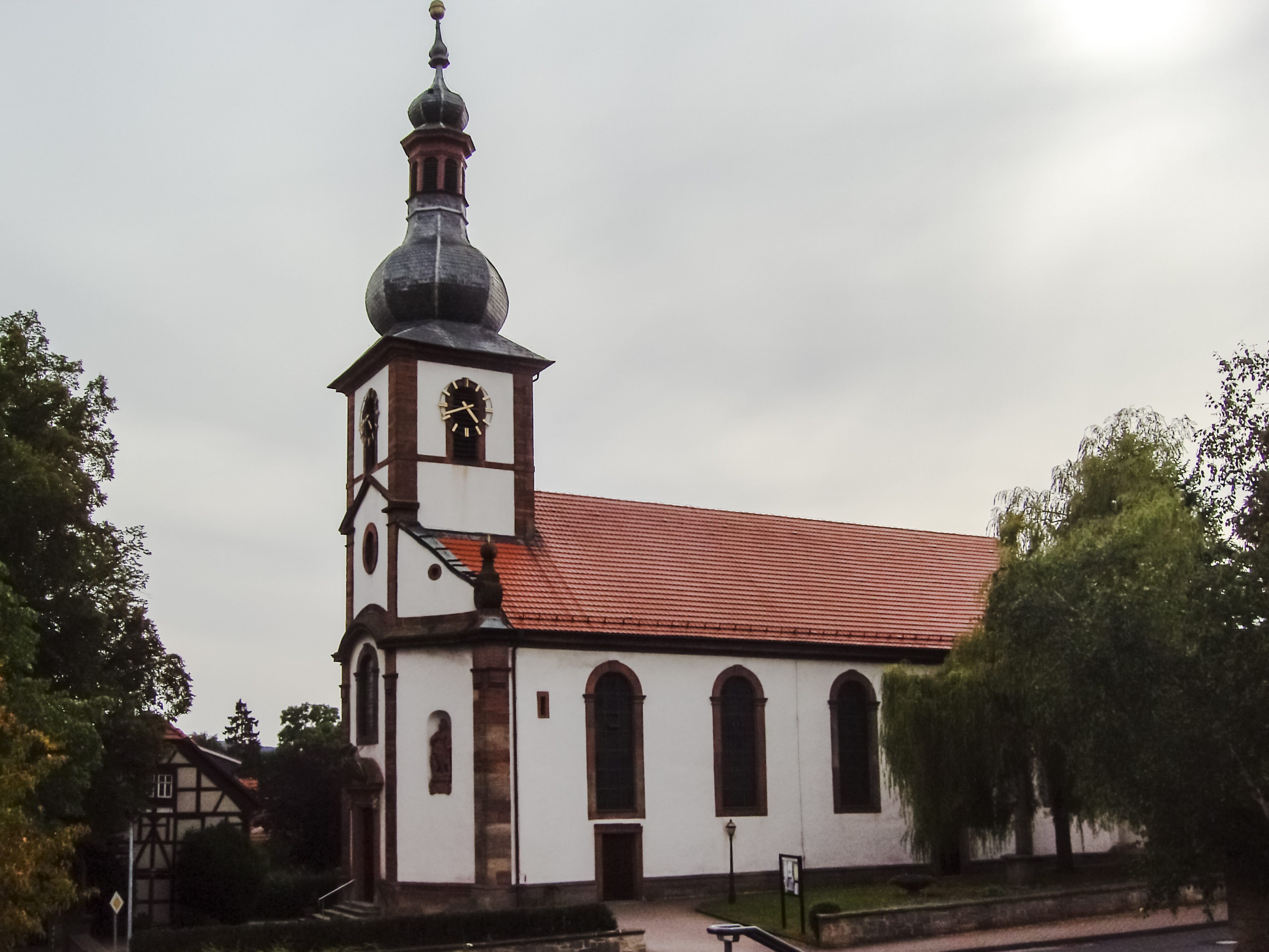 Catholic St. George Church Eiterfeld